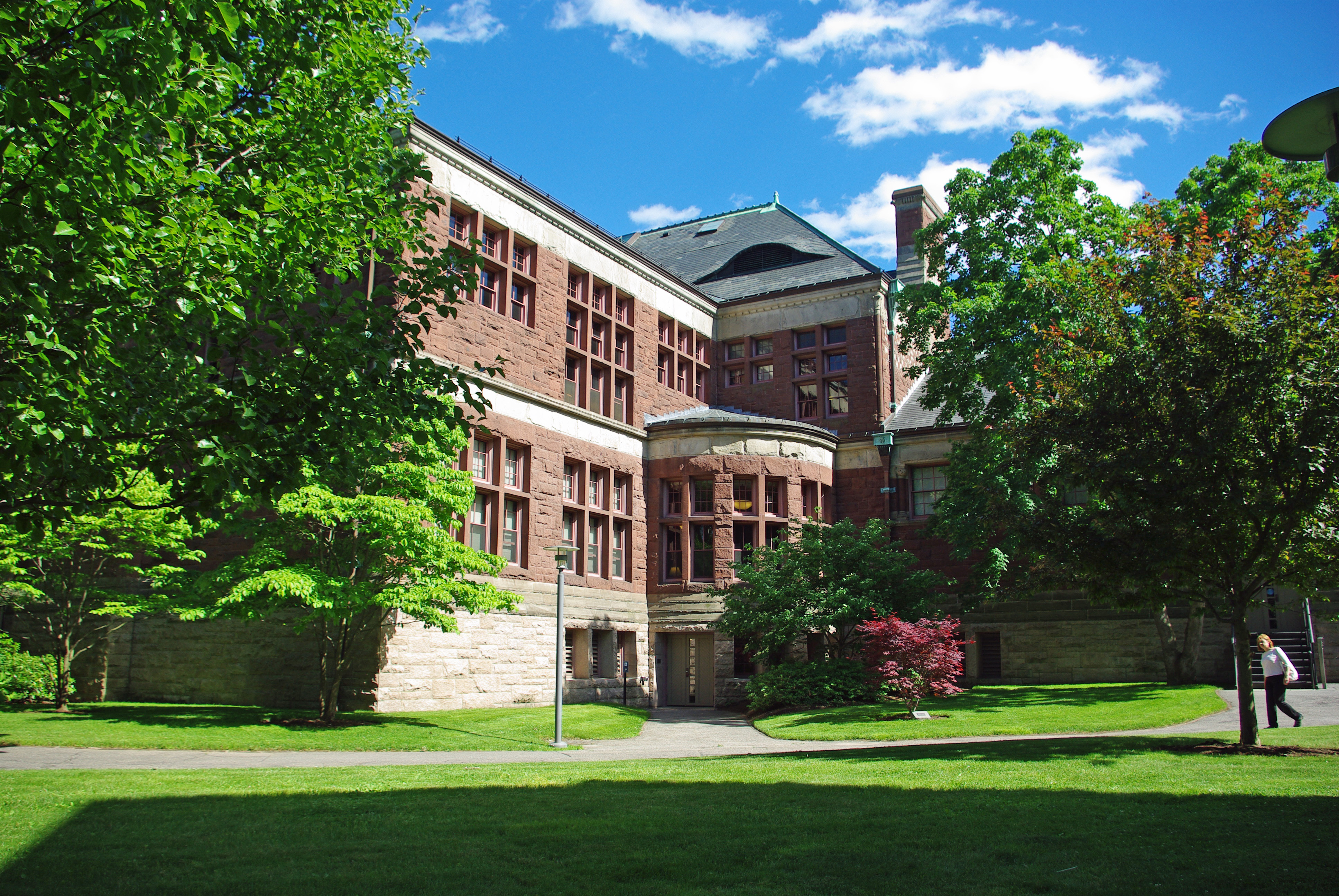 Austin Hall